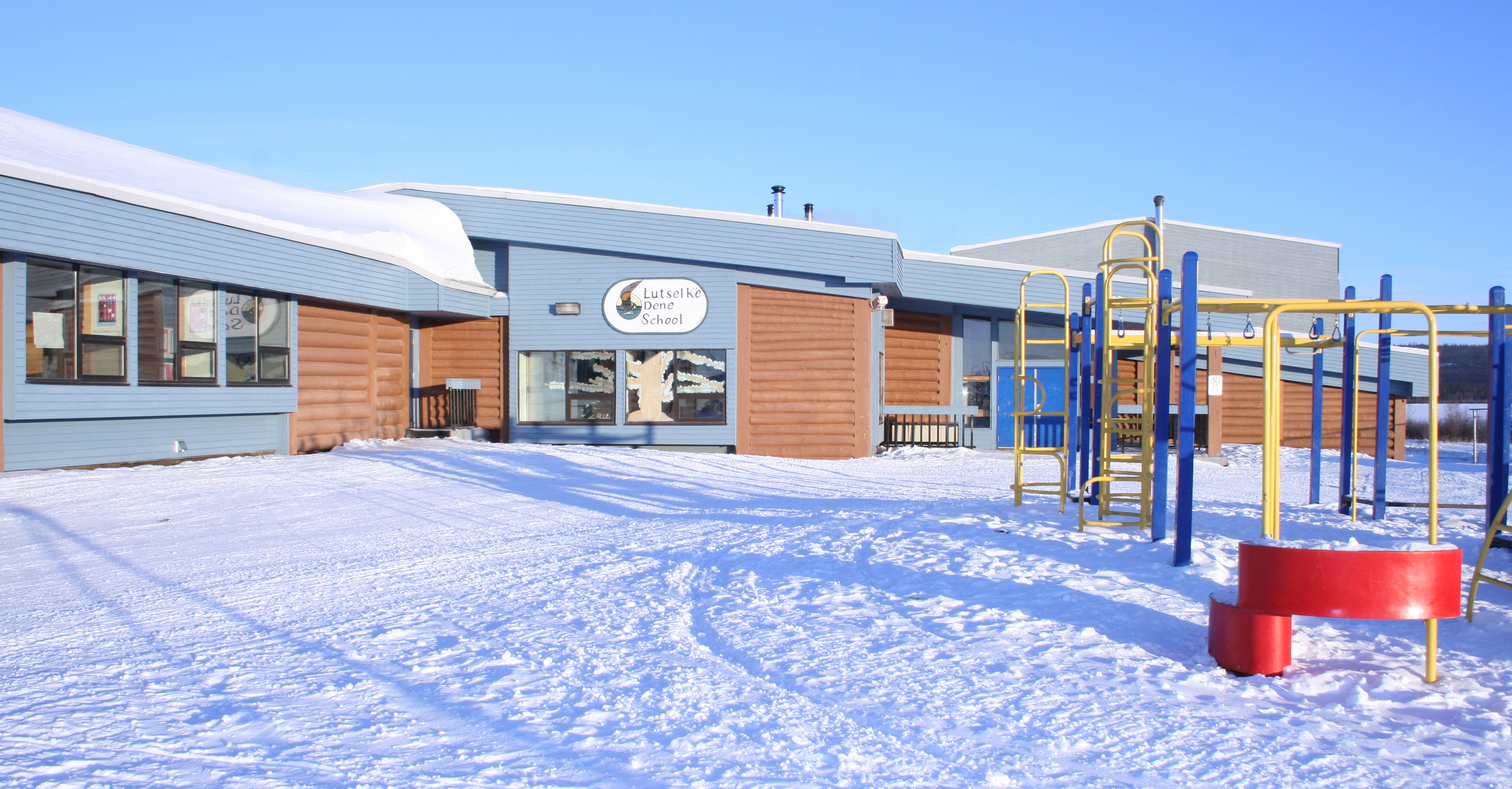 Lutsel K'e Dene School in Winter